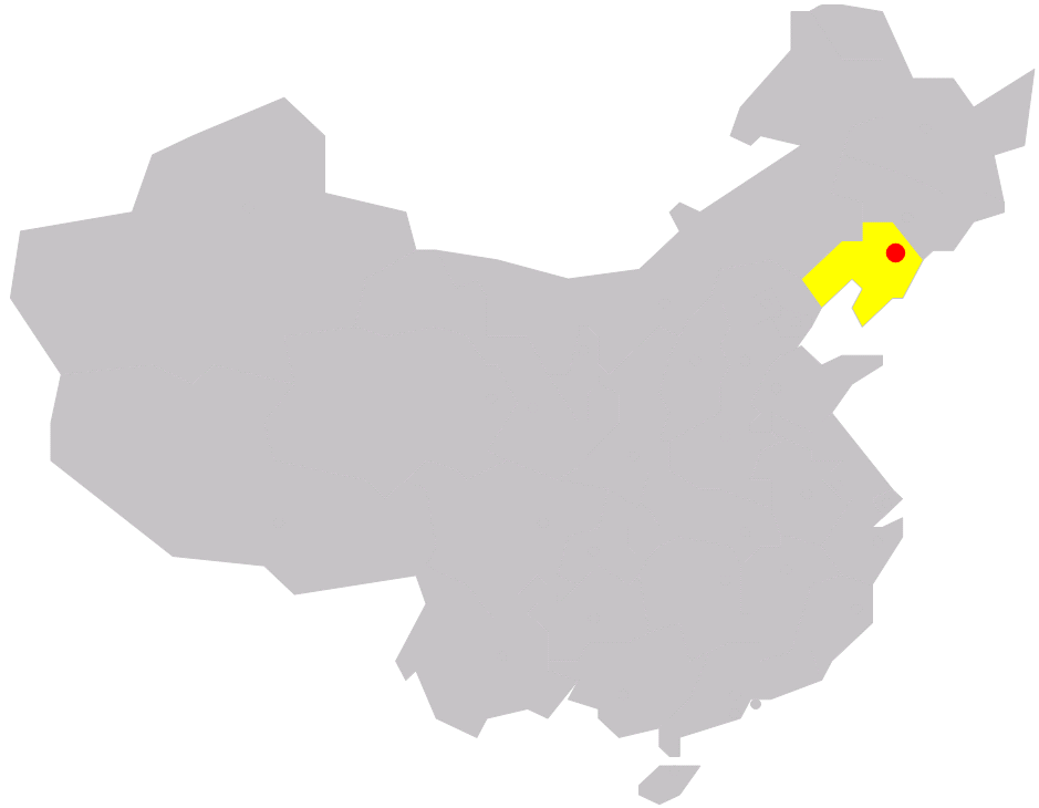 position of Fushun in China